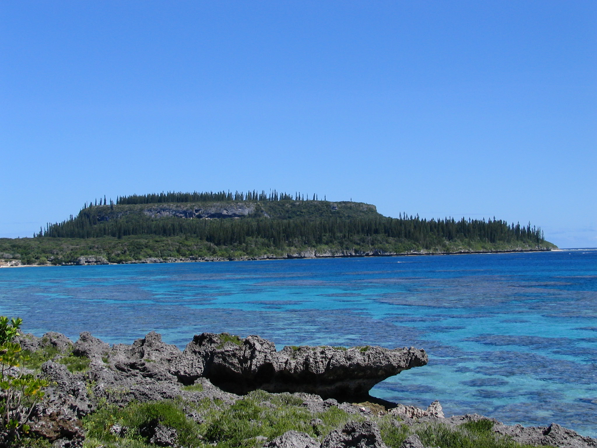 View of Cap Wabao, near Tadine, Maré Island, New Caledonia from the north.